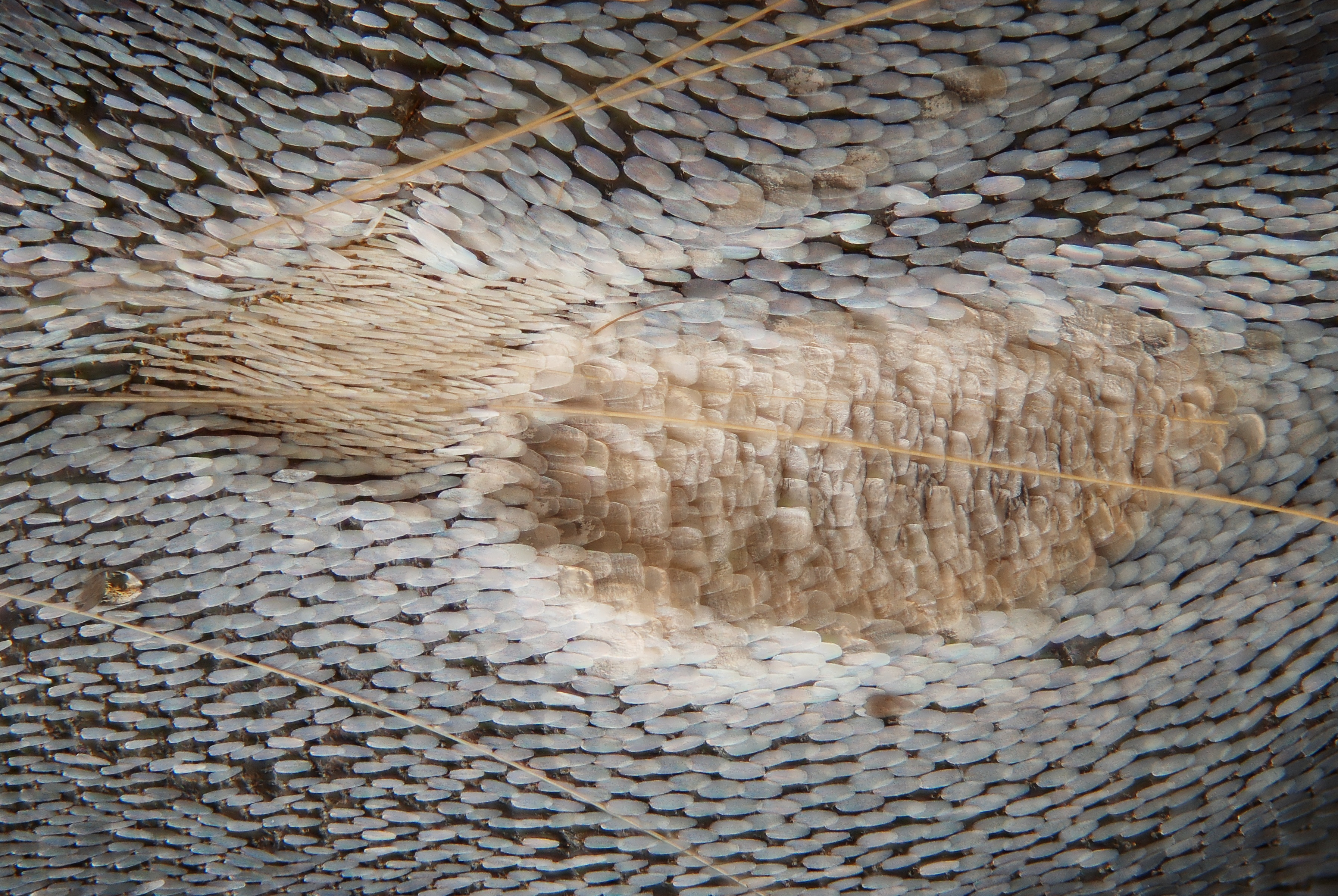 Androconial spot on wing of Squinting Bush Brown Bicyclus anynana, Family Nymphalidae, Lepidoptera. Caption provided by author : Androconial spot on the hind wing of the African butterfly Bicyclus anynana. Androconia are scales of lepidoptera that are specialized for the dispersion/production of sexual pheromones. The term is generally used for males only (but some authors seems to use it also for females). The yellow hairs that cross the picture are part of a hair pencil that has been removed for the picture. This hair pencil also play a role in the dispersion of the sexual scent.